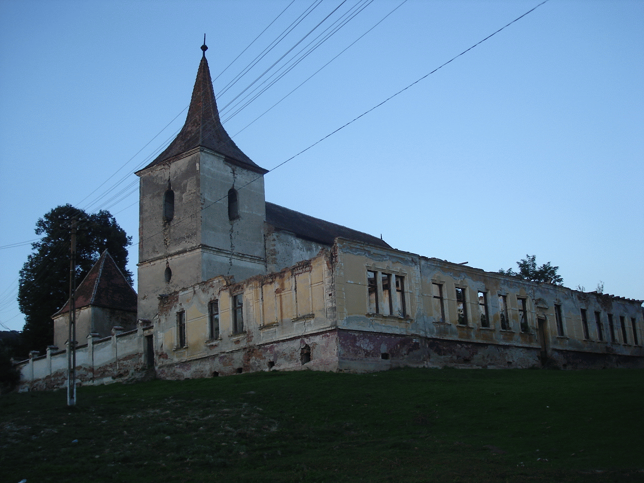 The Saxon church in Felmer (Transylvania, Romania) and the ruins of the former Saxon school